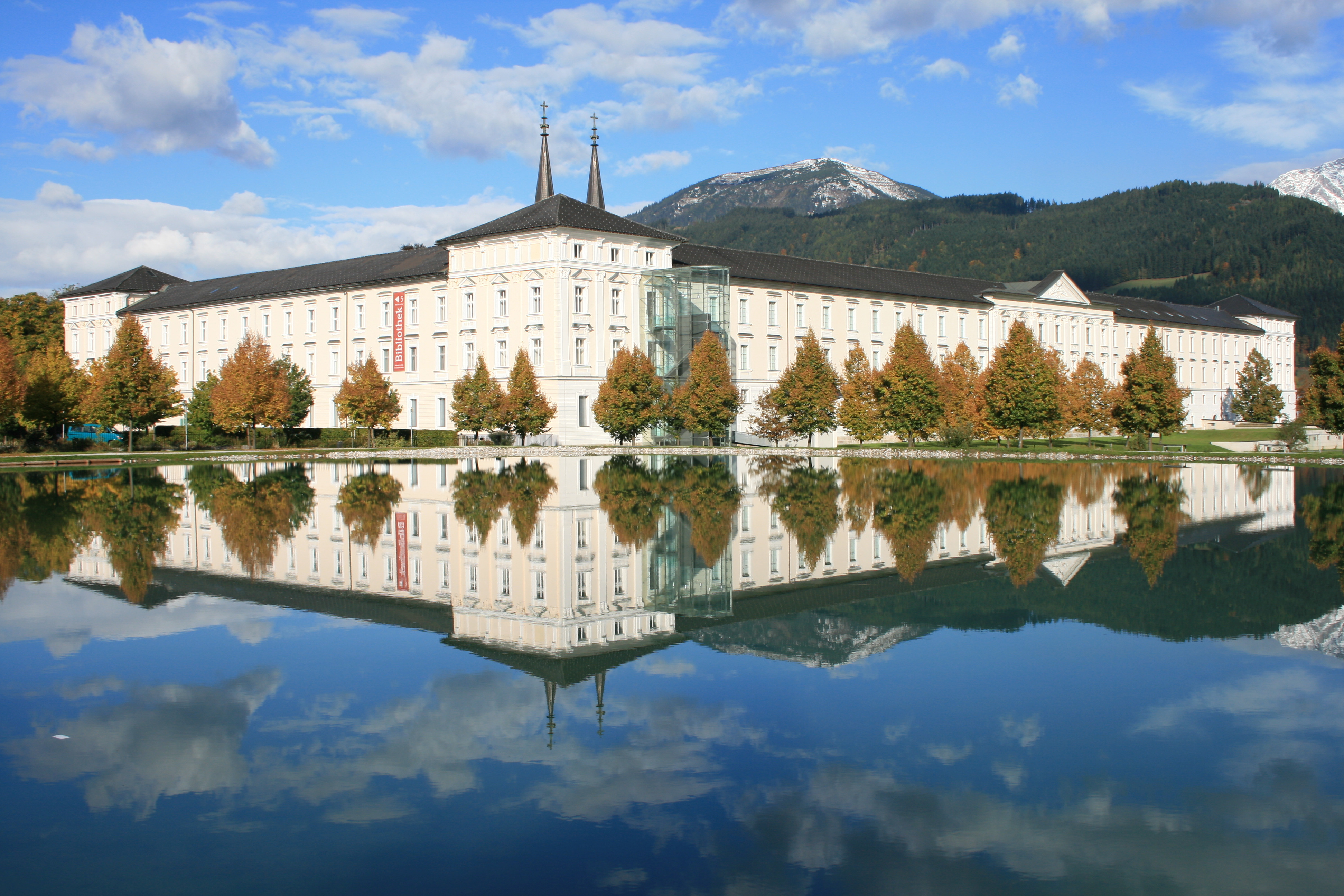 Foto from Stift Admont - in the front is not a lake but a static fire tank (Löschwasserteich)